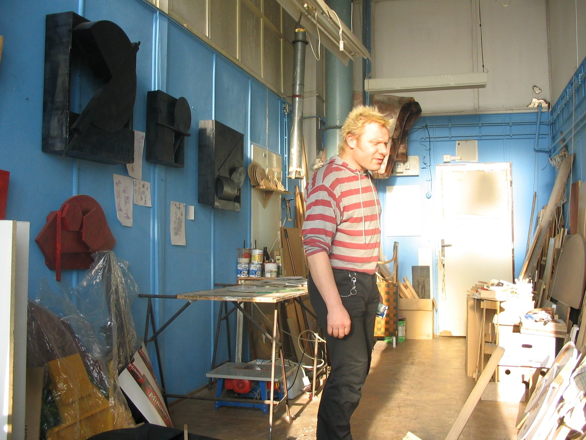 Sculptor Stepan Malek in his studio 2006